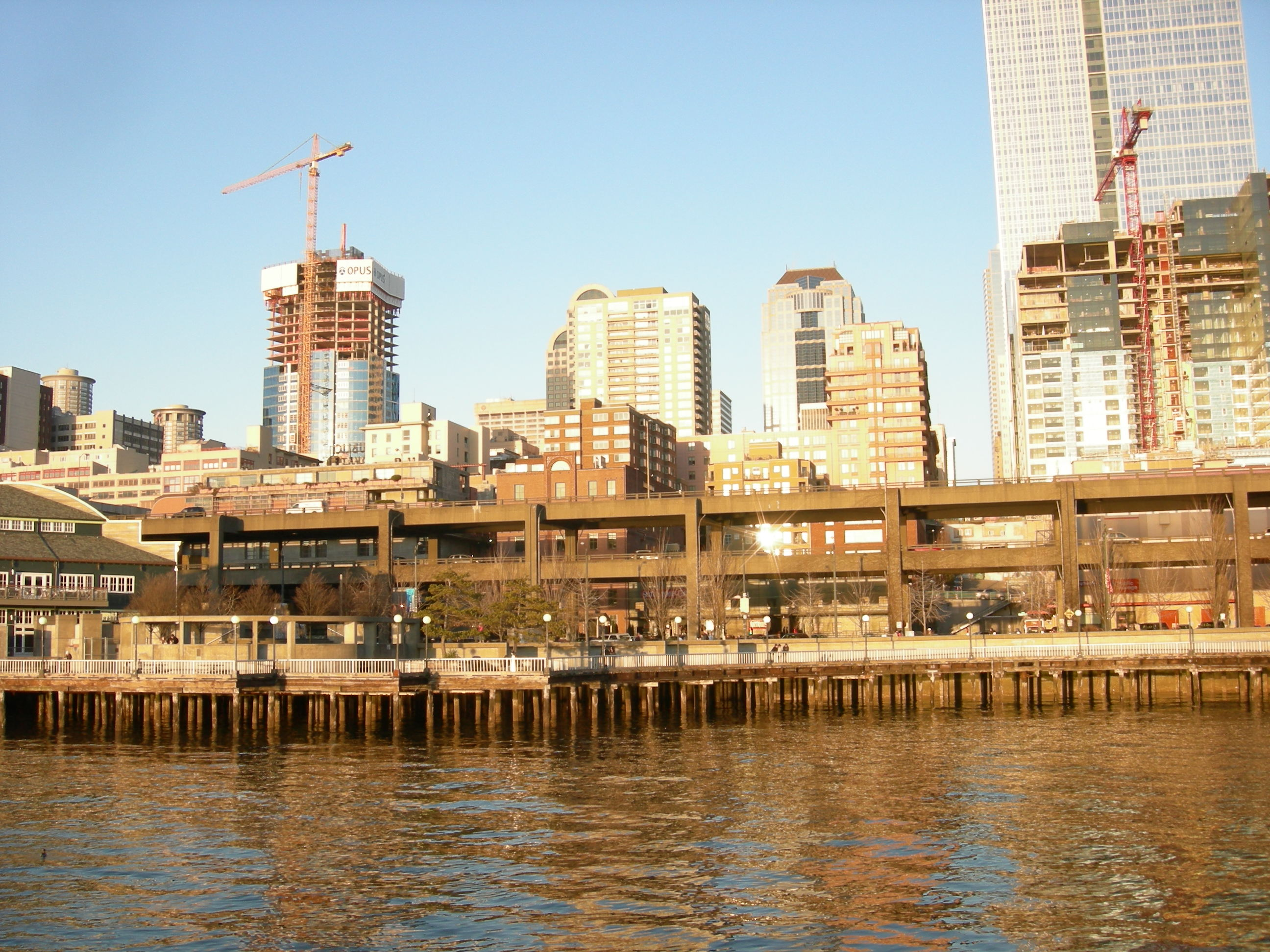 Alaskan Way Viaduct and Downtown Seattle, Washington. Waterfront Park in middle ground.